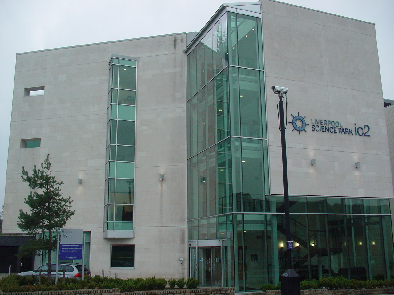 Liverpool Science Park, Innovation Centre 2. Brownlow Hill, Liverpool, England.